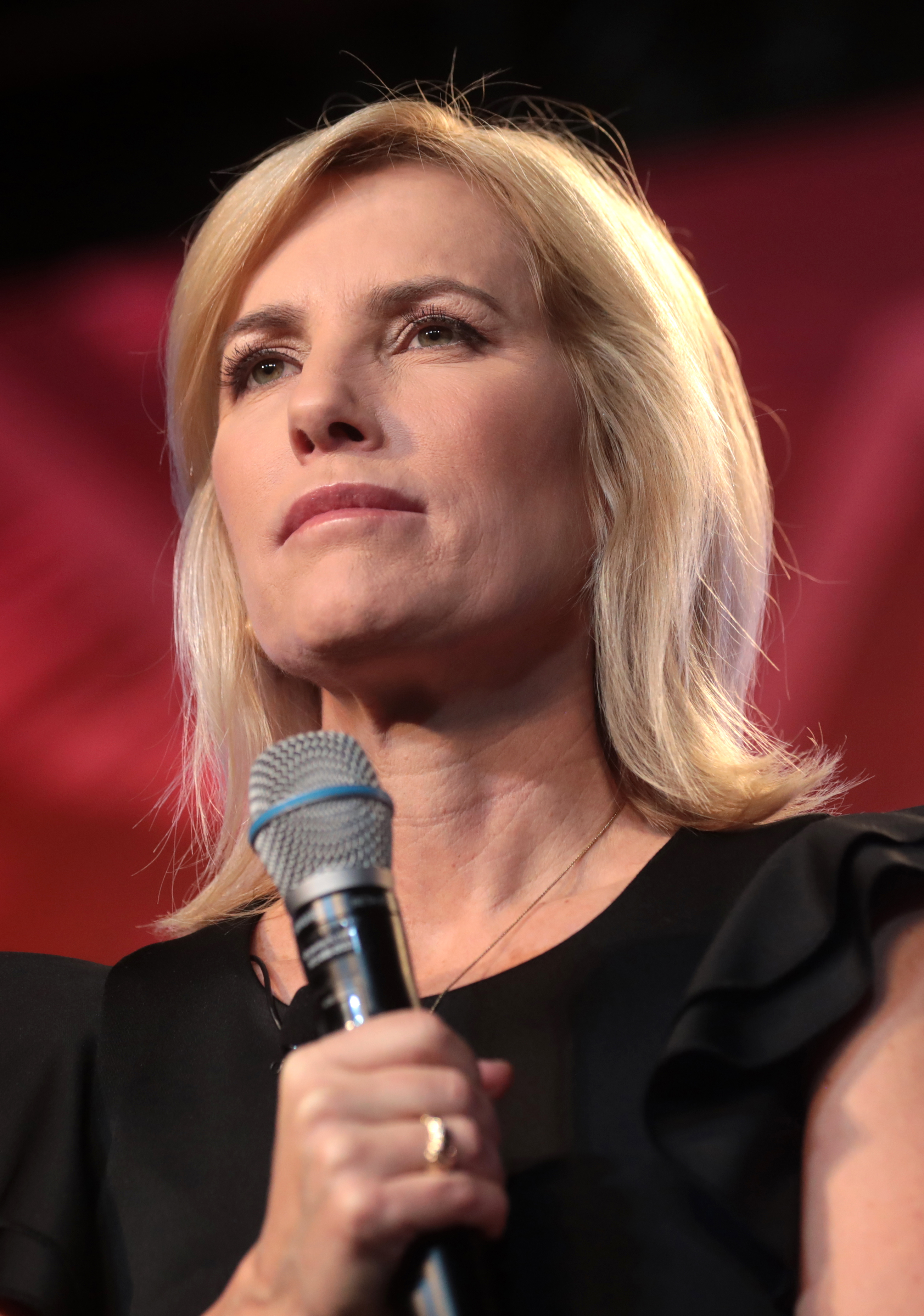 Laura Ingraham speaking at an event in West Palm Beach, Florida.